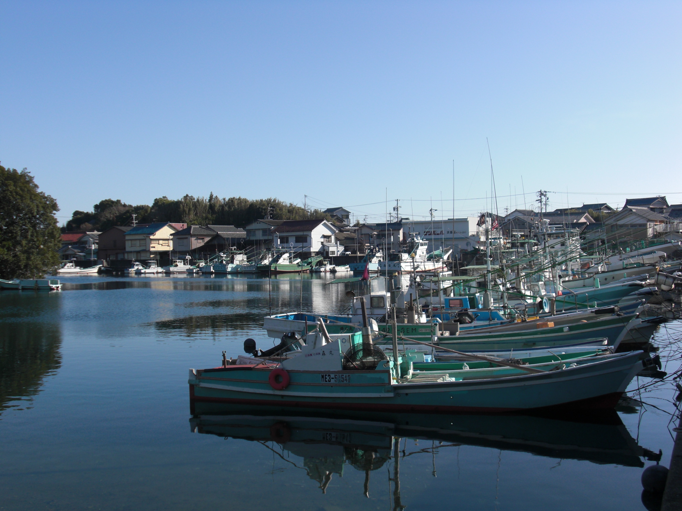 This is the Port of Hamajima, which is located in Shima, Mie, Japan.